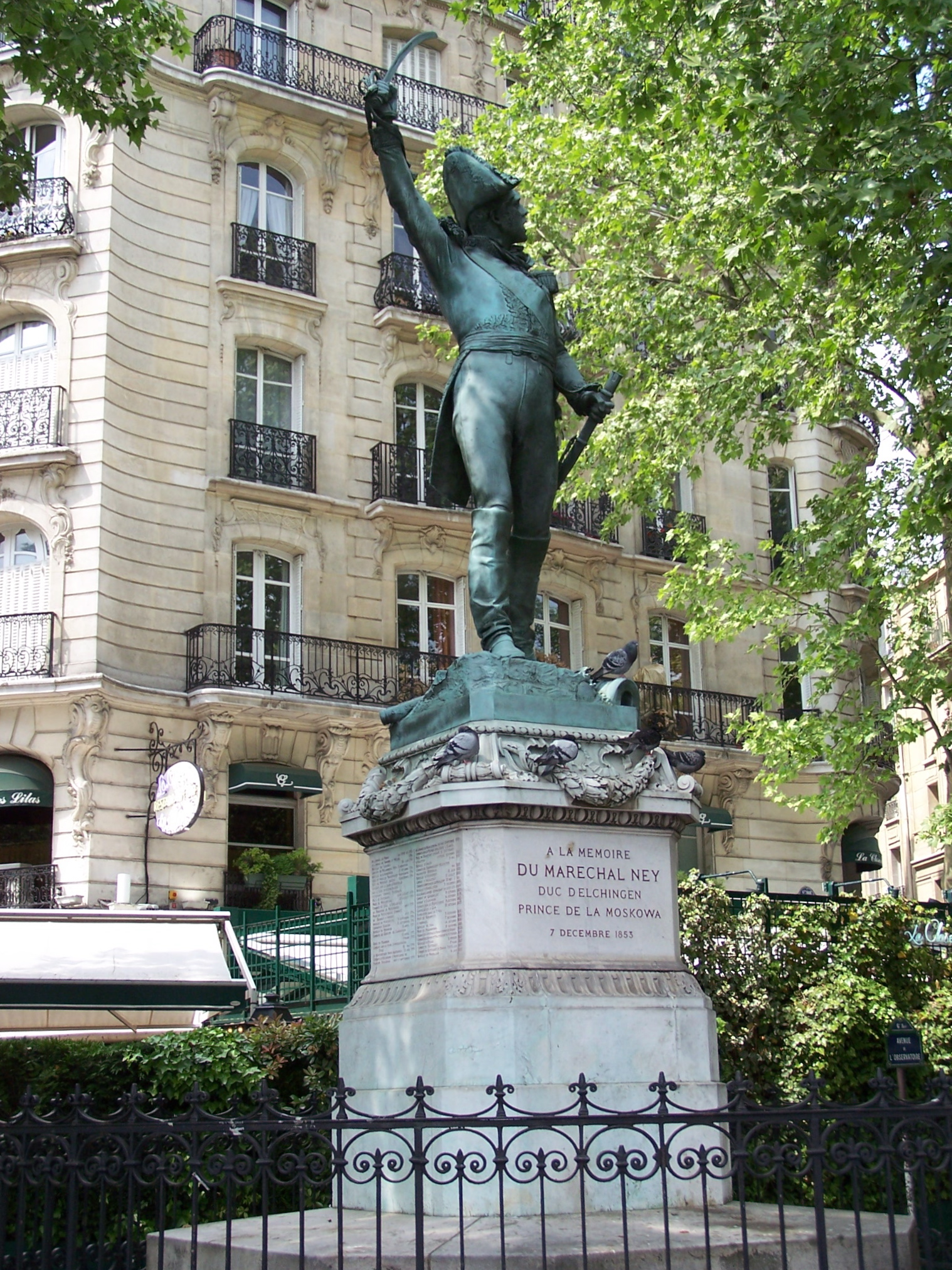 François Rude, Monument to Maréchal Ney at the avenue de l'Observatoire in Paris.